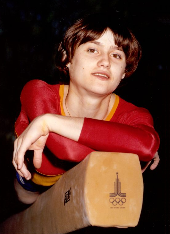 Nadia Comăneci at the 1980 Olympics in Moscow